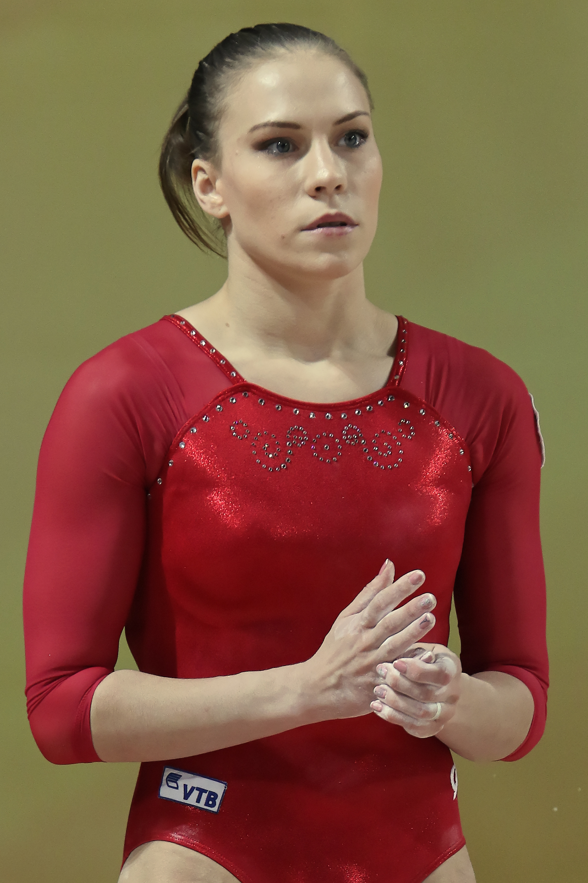 2015 European Artistic Gymnastics Championships. Vault.